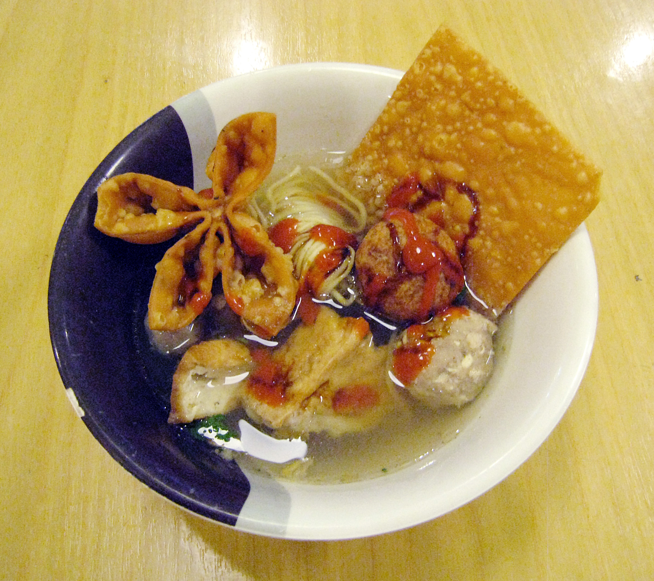 Baso Malang Karapitan, a type of Chinese Indonesian cuisine of meatball and fried wonton soup from Malang, East Java. Sometimes also called Bakwan Malang. BMK restaurant, Atrium Senen, Central Jakarta.